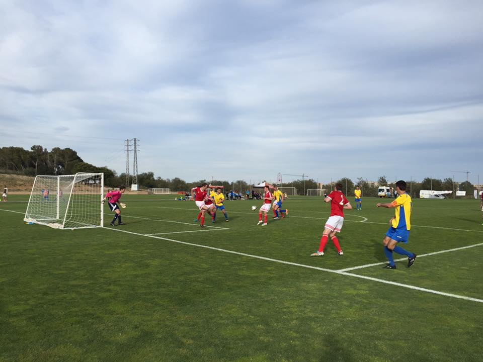 Photo taken at IFCPF Pre Paralympic Tournament Salou 2016 using personal iPhone.